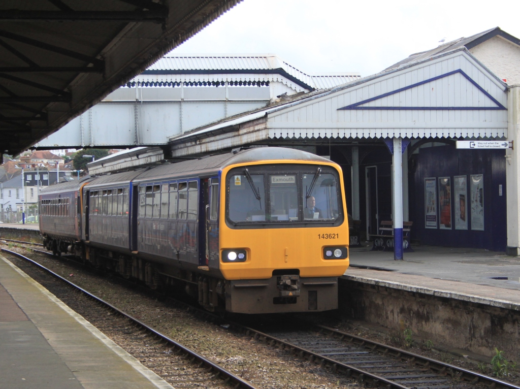 A First Great Western service to Exmouth (formed by 143621 and 153372) ready to start its journey from Paignton in Devon, England.